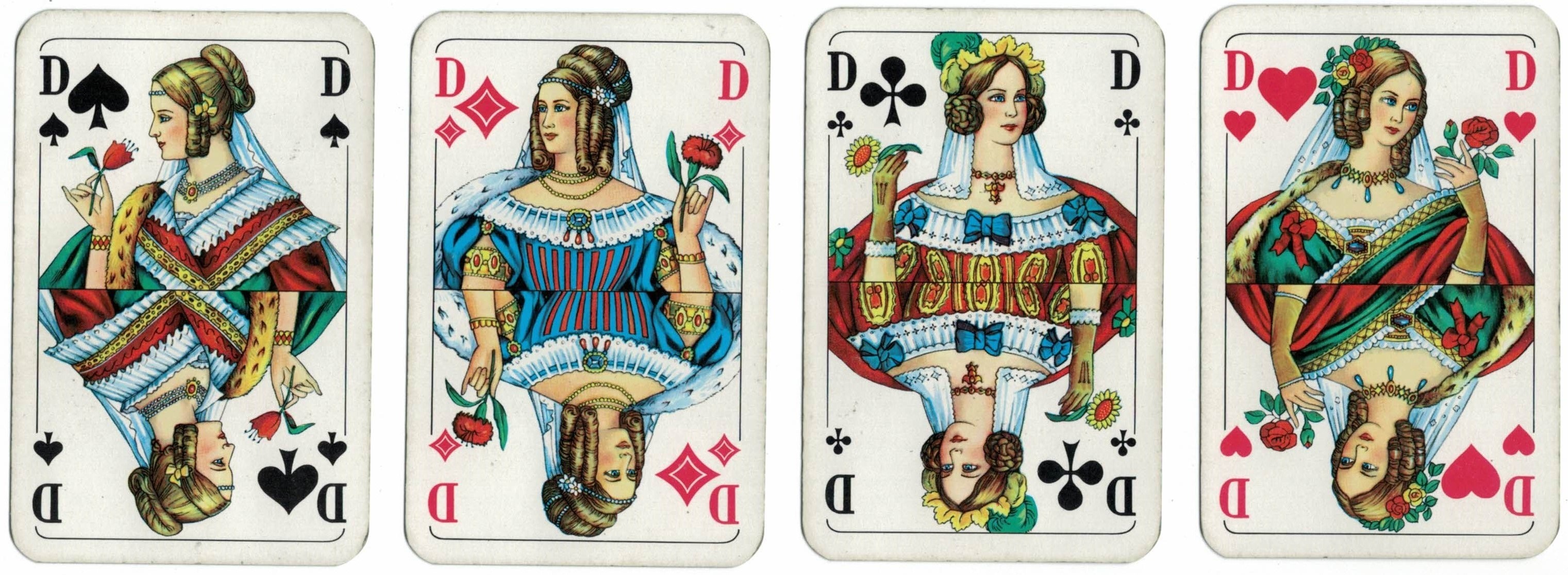 Four queens from the Berlin pattern, the most common playing card pattern in Germany.